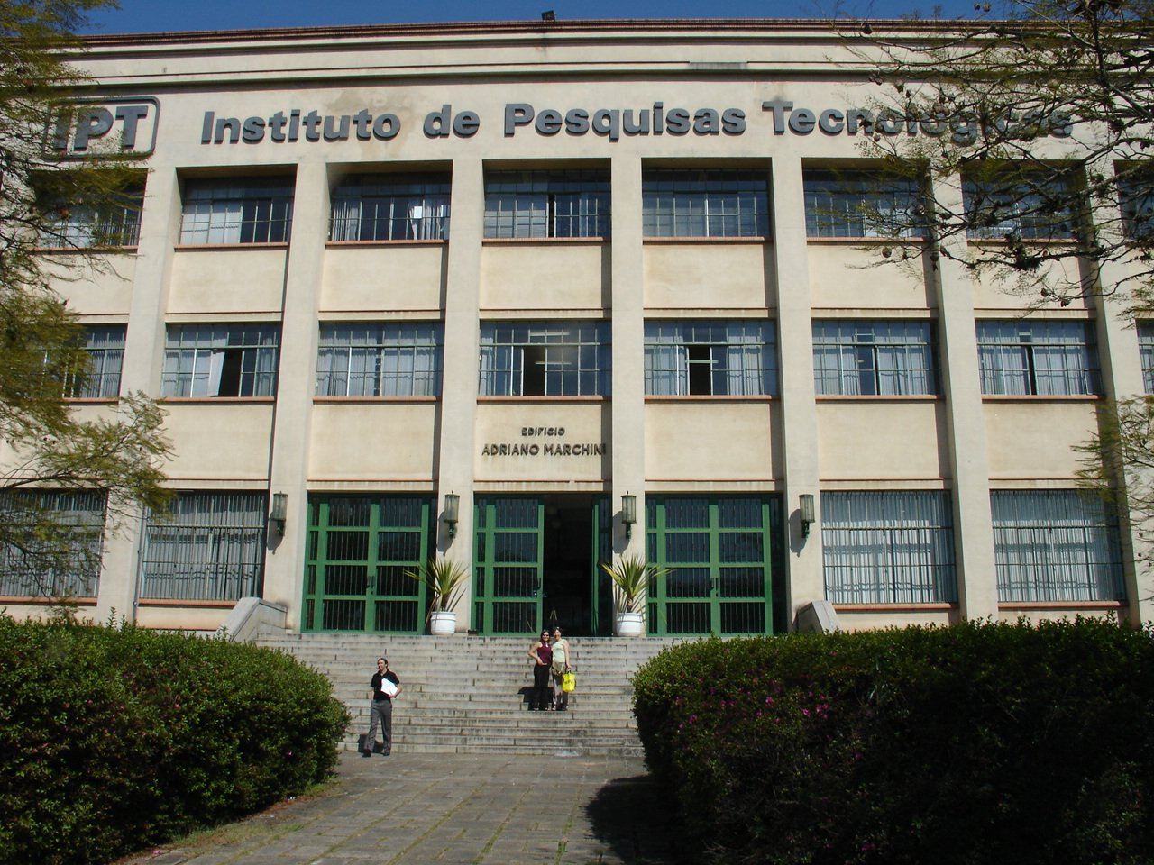 Main entrance to the IPT (Instituto de Pesquisas Tecnológicas).